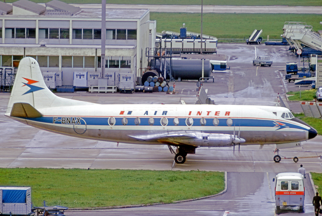 Vickers Viscount 724 F-BNAX of Air Inter at Paris Orly airport in 1973